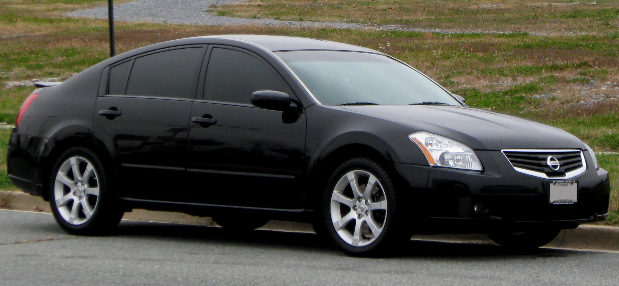 2007-2008 Nissan Maxima photographed in Silver Spring, Maryland, USA.